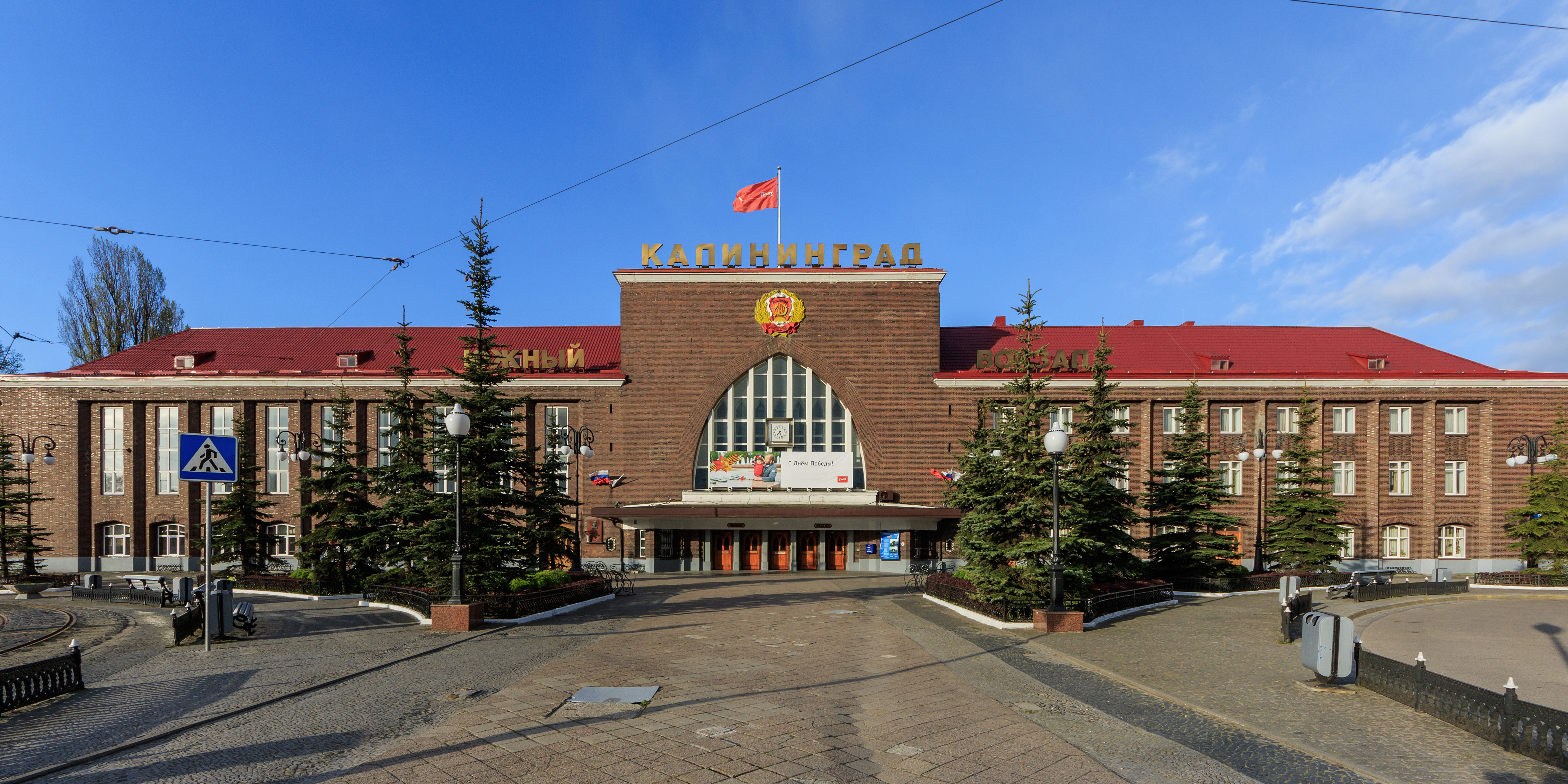 South railway station in Kaliningrad formerly Königsberg, Kaliningrad Oblast (Russia).